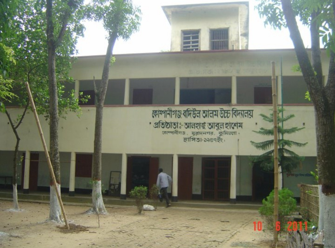 স্কুল ভবন